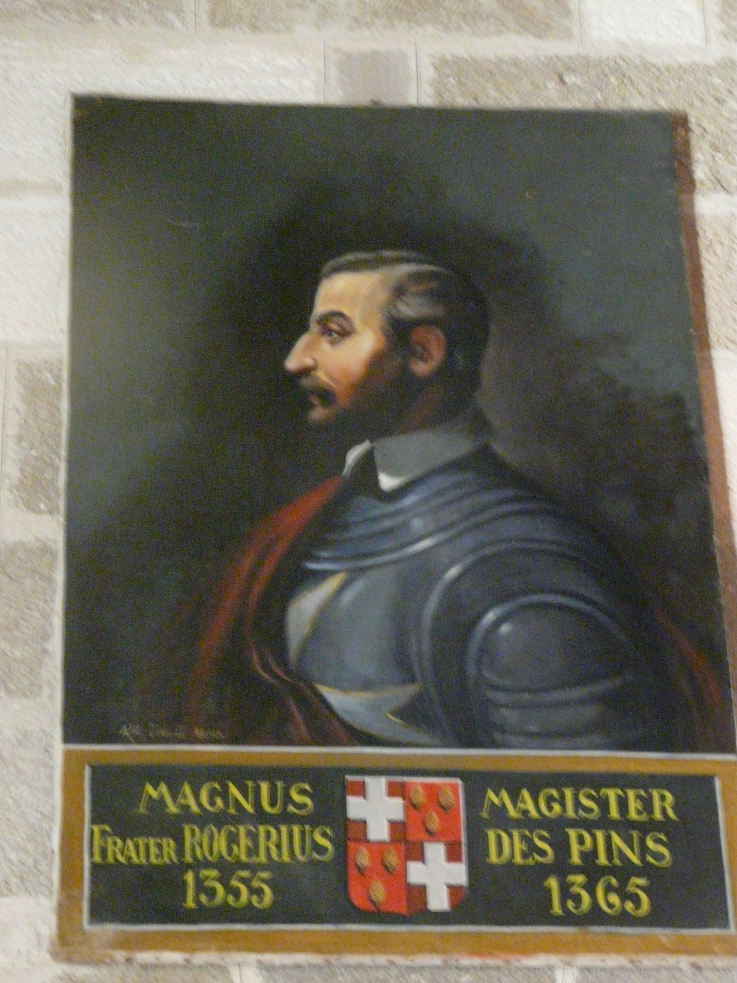 Palace of the Grand Master of the Knights of Rhodes